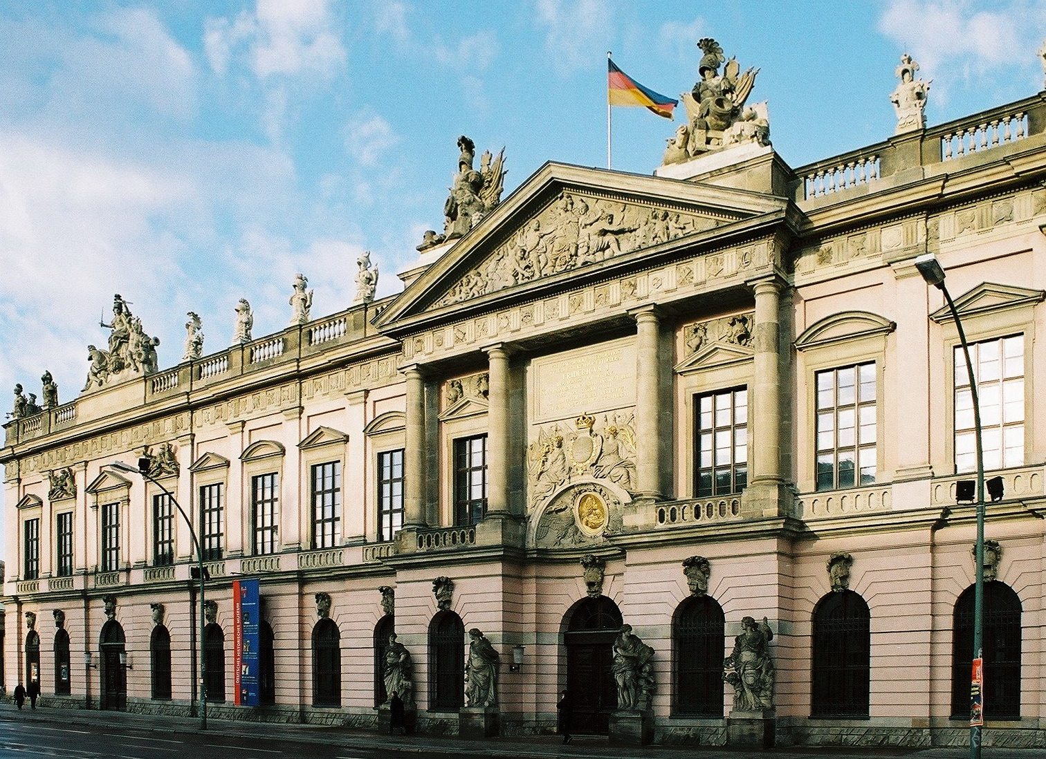 German historical museum (former armory) in Berlin, Unter den Linden